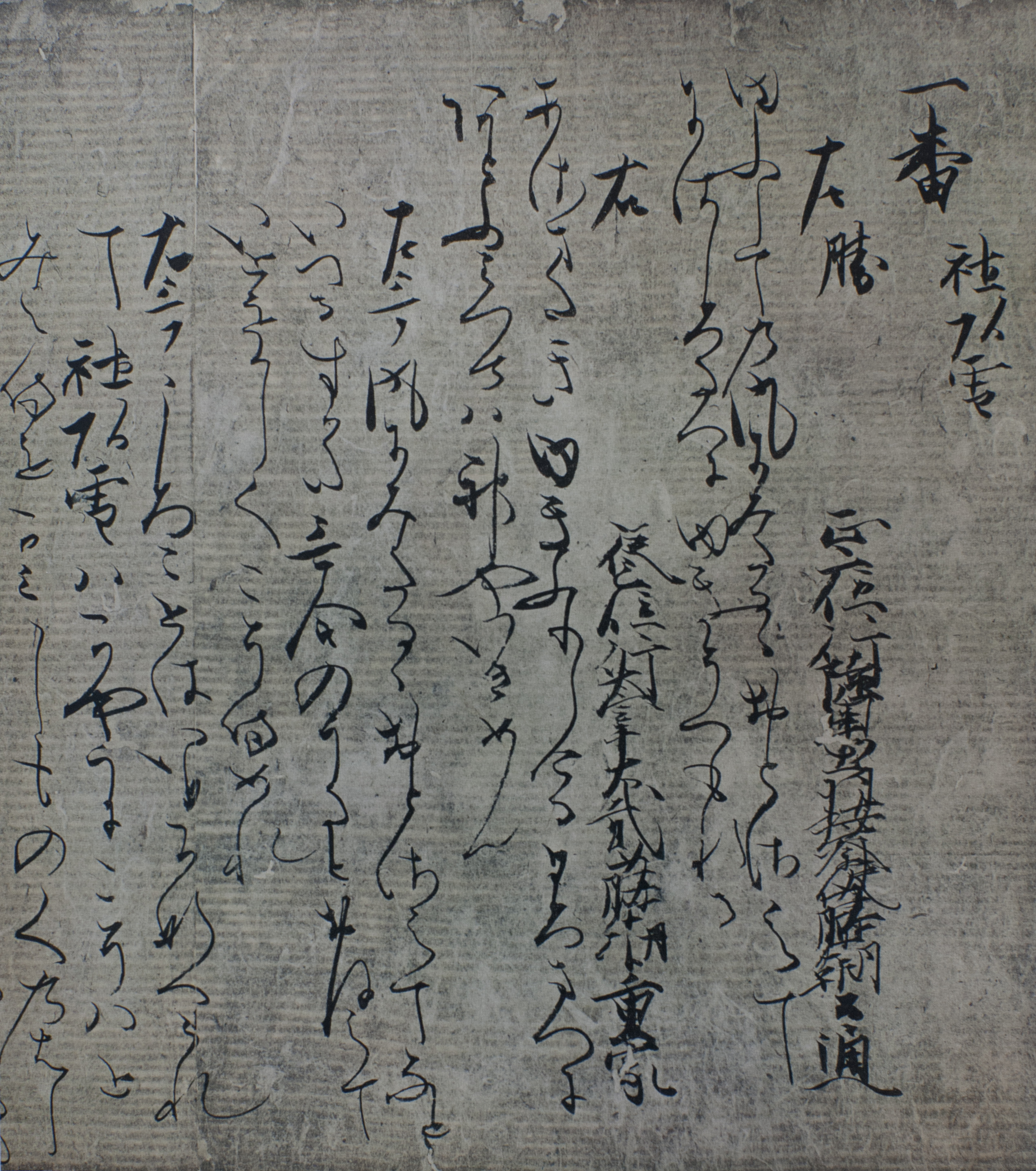 National Treasure of Japan